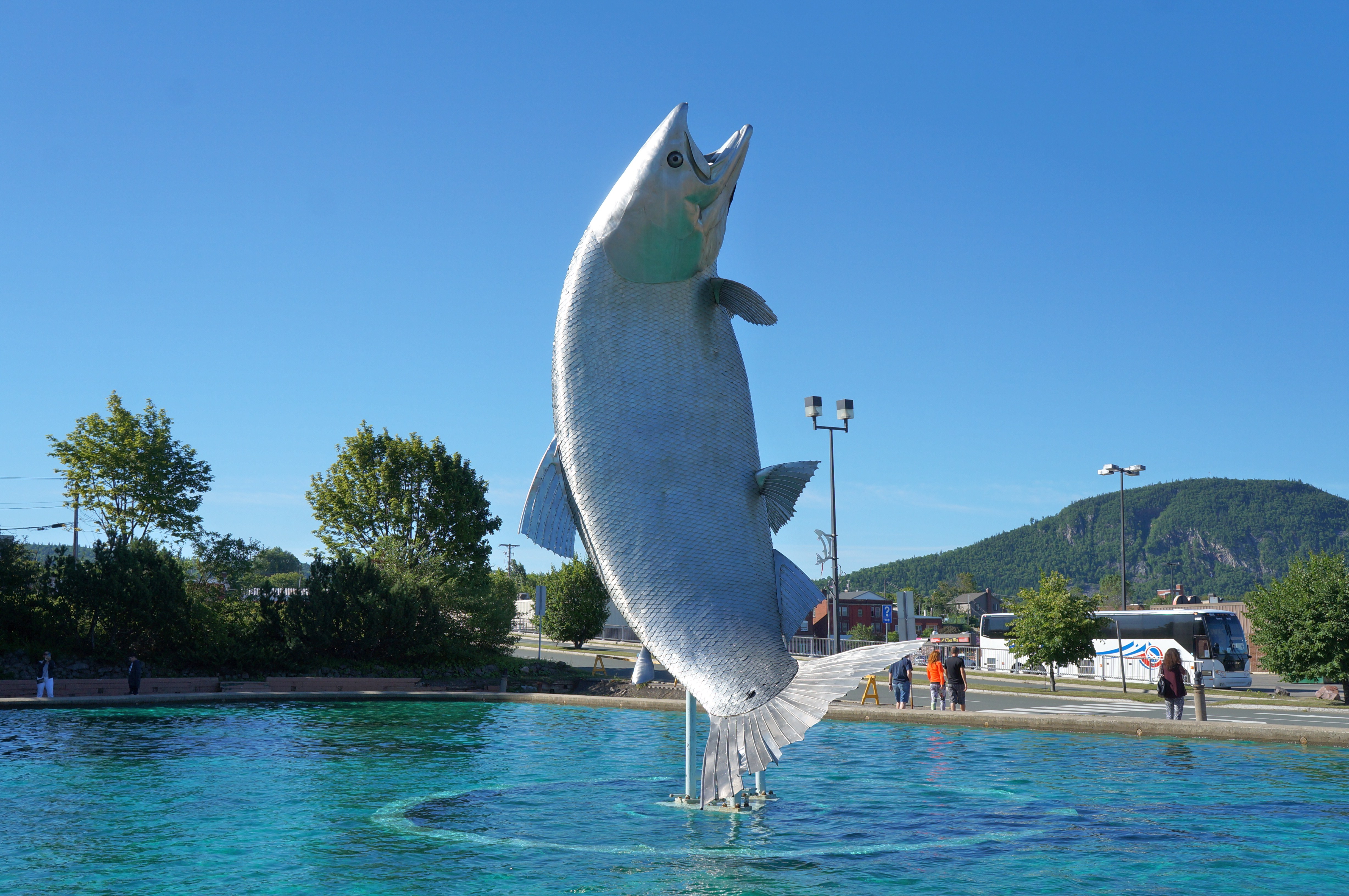 Statue of a huge salmon in Campbellton, New Brunswick